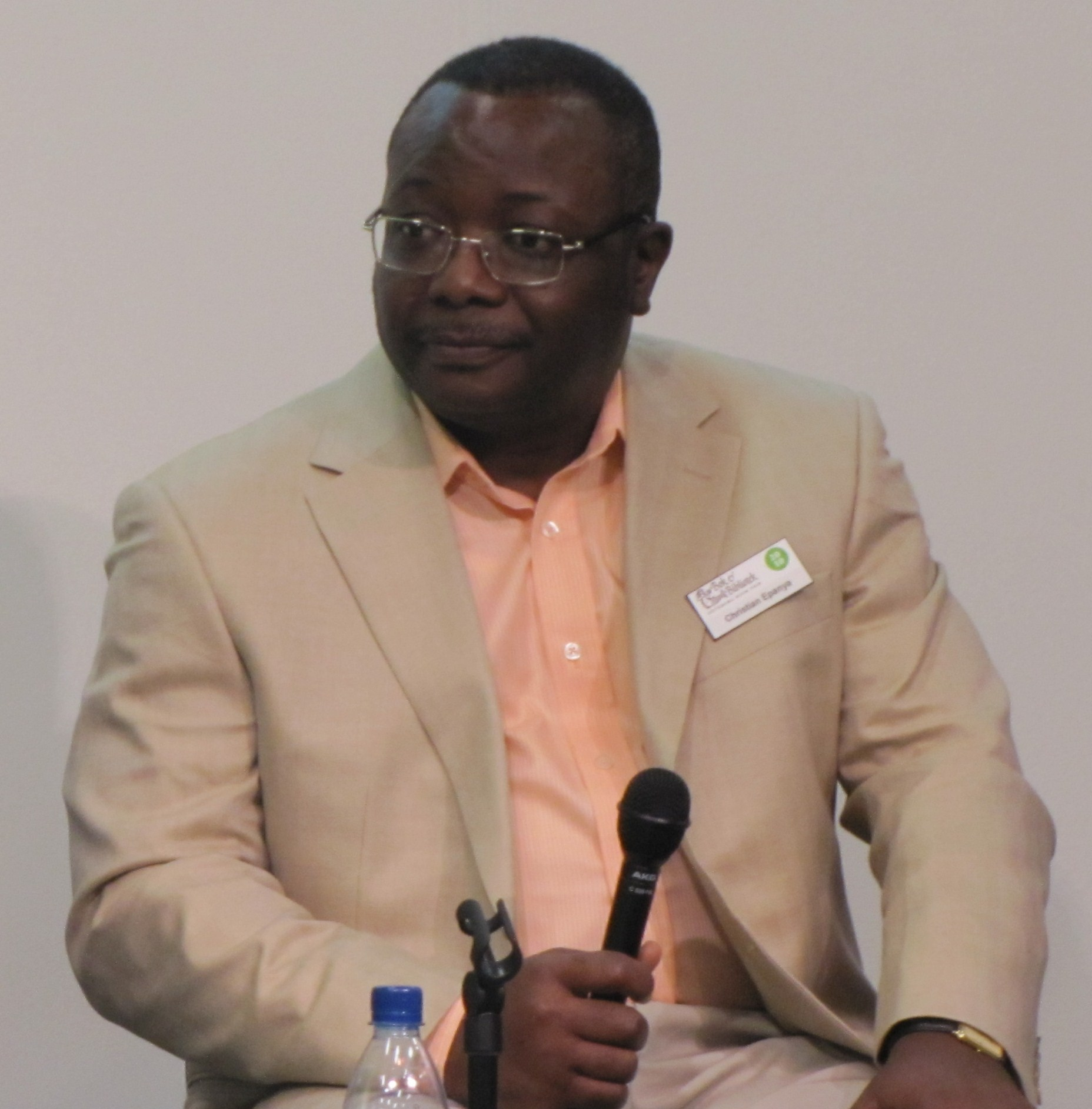 Cameroonian picture book author and illustrator Christian Epanya at the Göteborg Book Fair 2010.